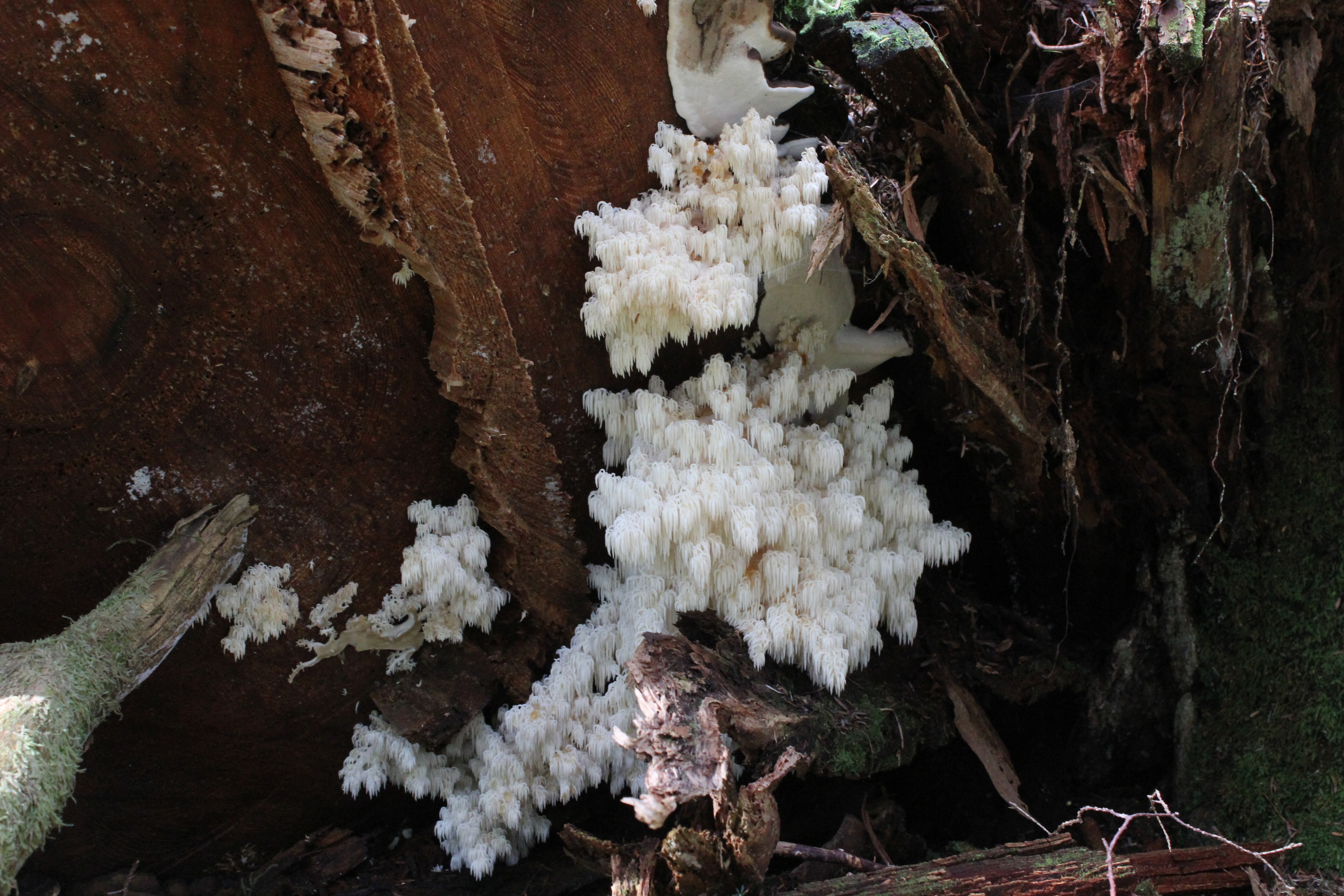 A picture of a Hericium abietis growing on a log near Prince Rupert British Columbia. In the background is a polypore mushroom.